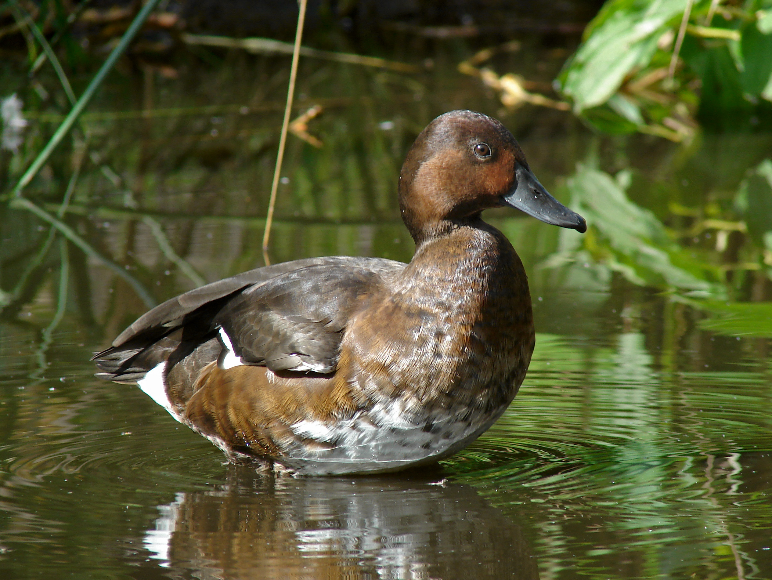 Ferruginous Duck; zoo in Lodz, Poland.